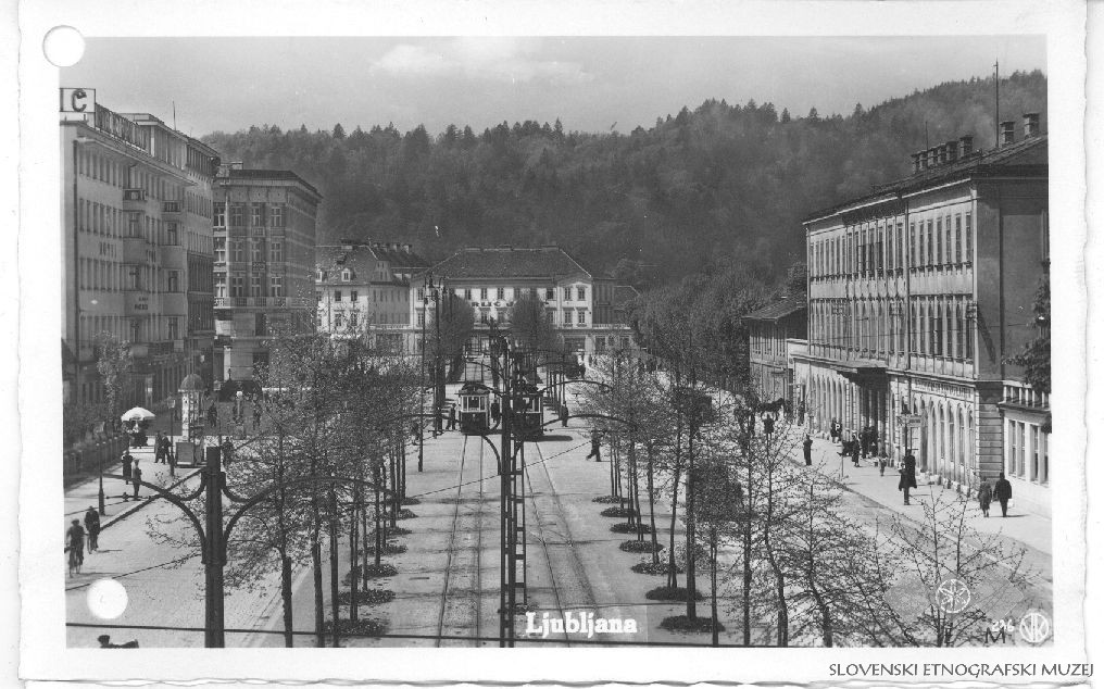 Postcard of Ljubljana, Liberation Front Square